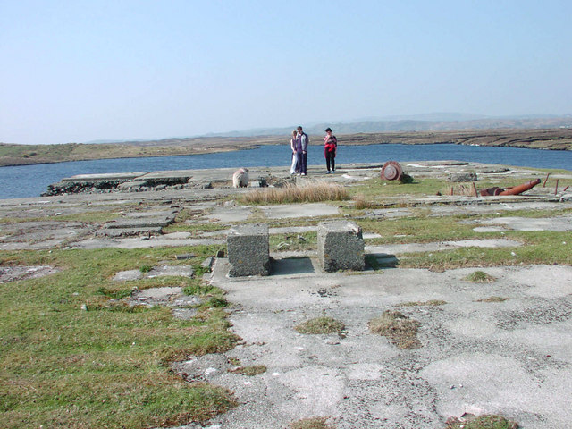 Marconi Transmitter Site Close to where Alcock and Brown landed in 1919 on June 15th. The site opened in 1907 and closed about 15 years later owing to The war for Irish national liberation.